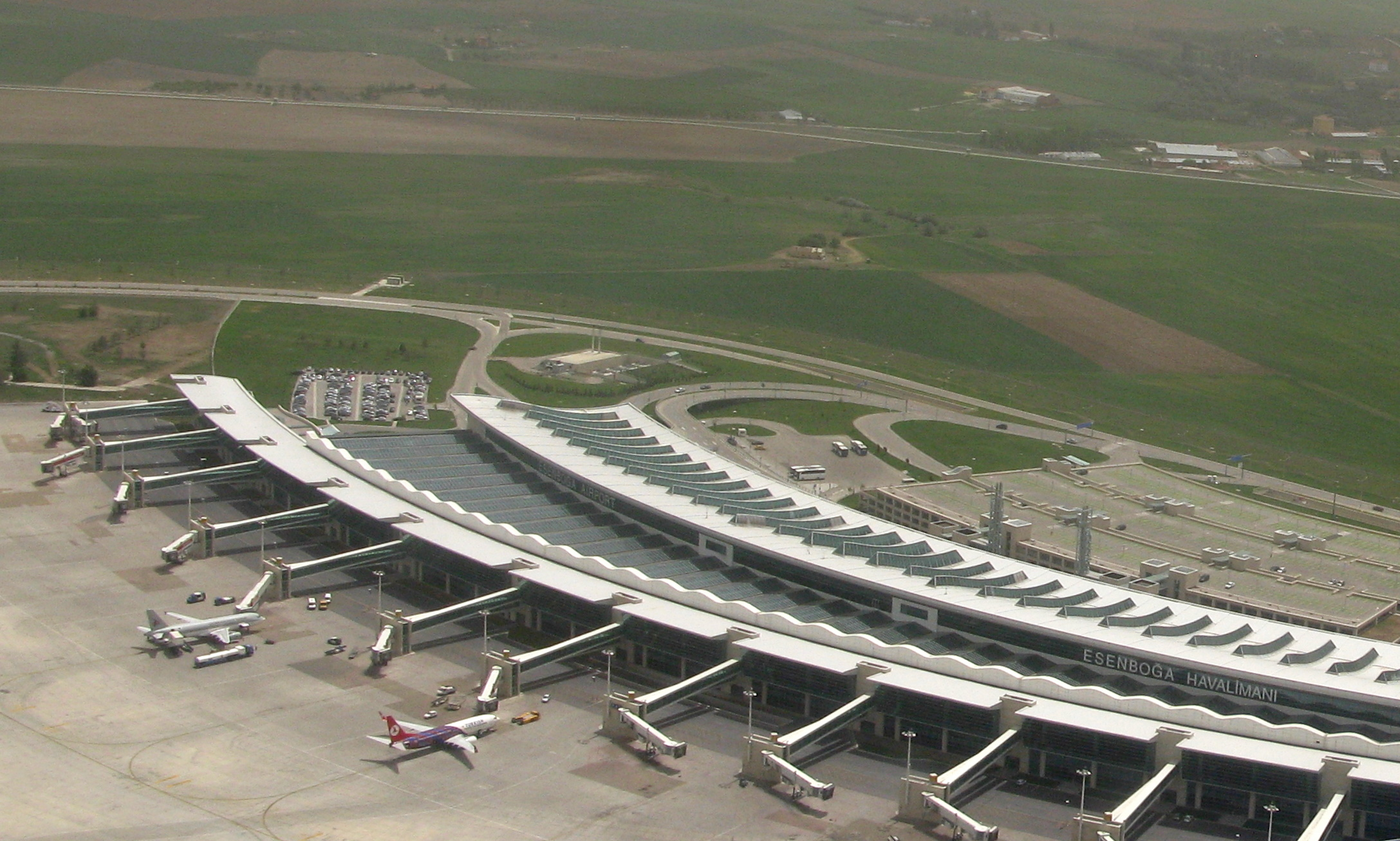 View on the terminal of the airport Esenboğa Havalimanı, Ankara, Turkey from the plane